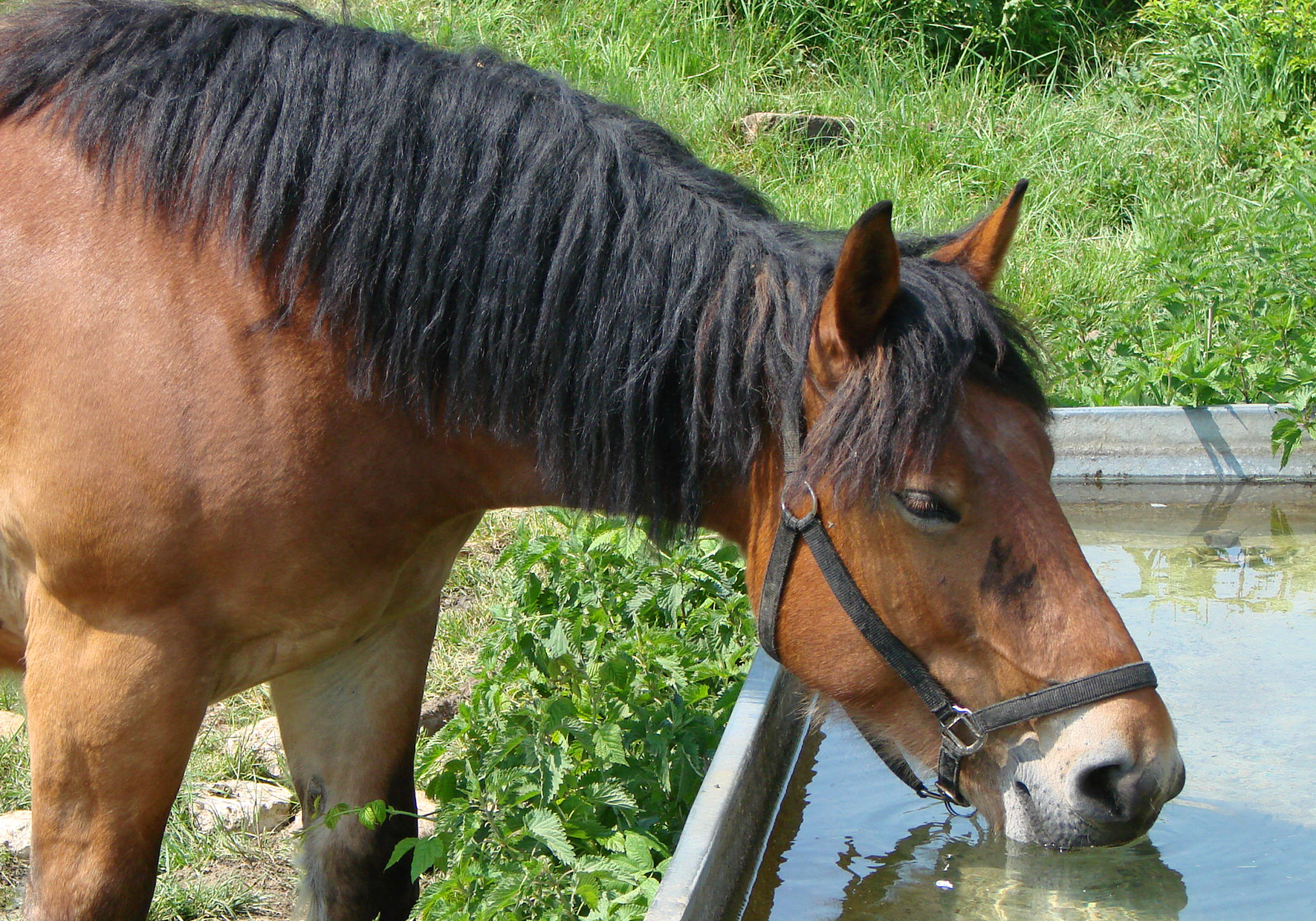 A drinking horse in a meadow.